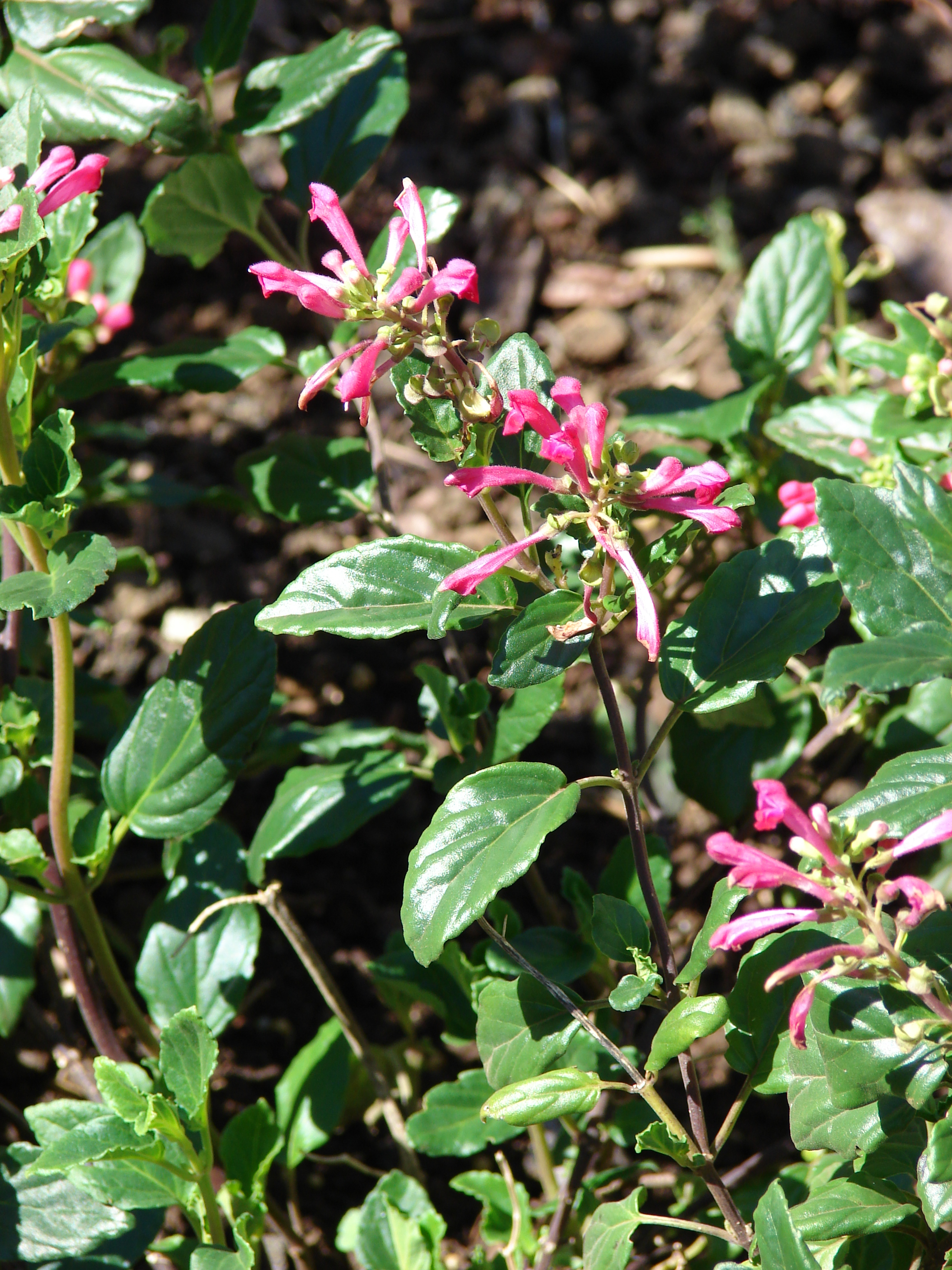 Scutellaria suffrutescens (flowers and leaves). Location: Maui, Enchanting Floral Gardens of Kula